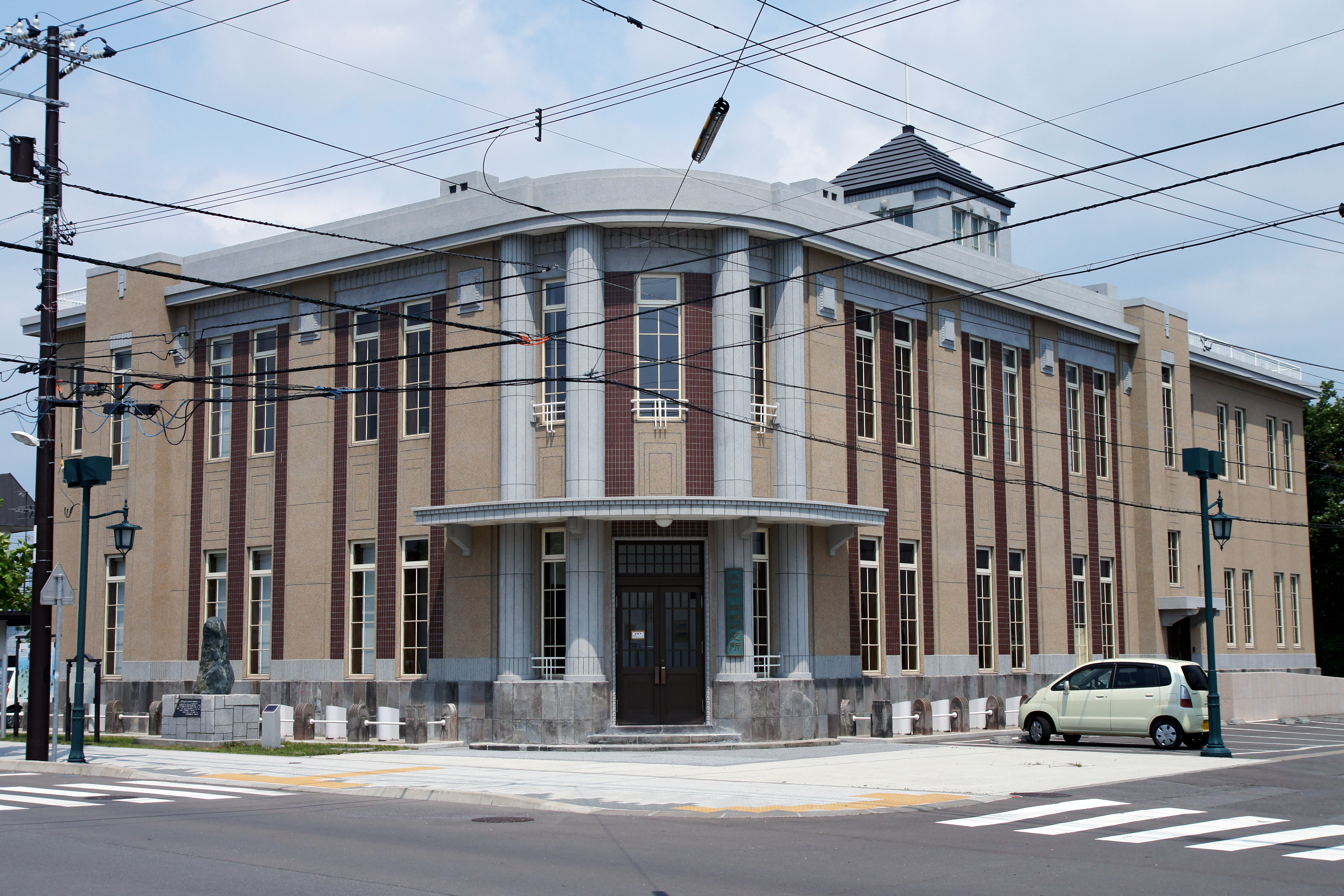 Old Hakodate Nishi Police Station Building in Hakodate, Hokkaido prefecture, Japan